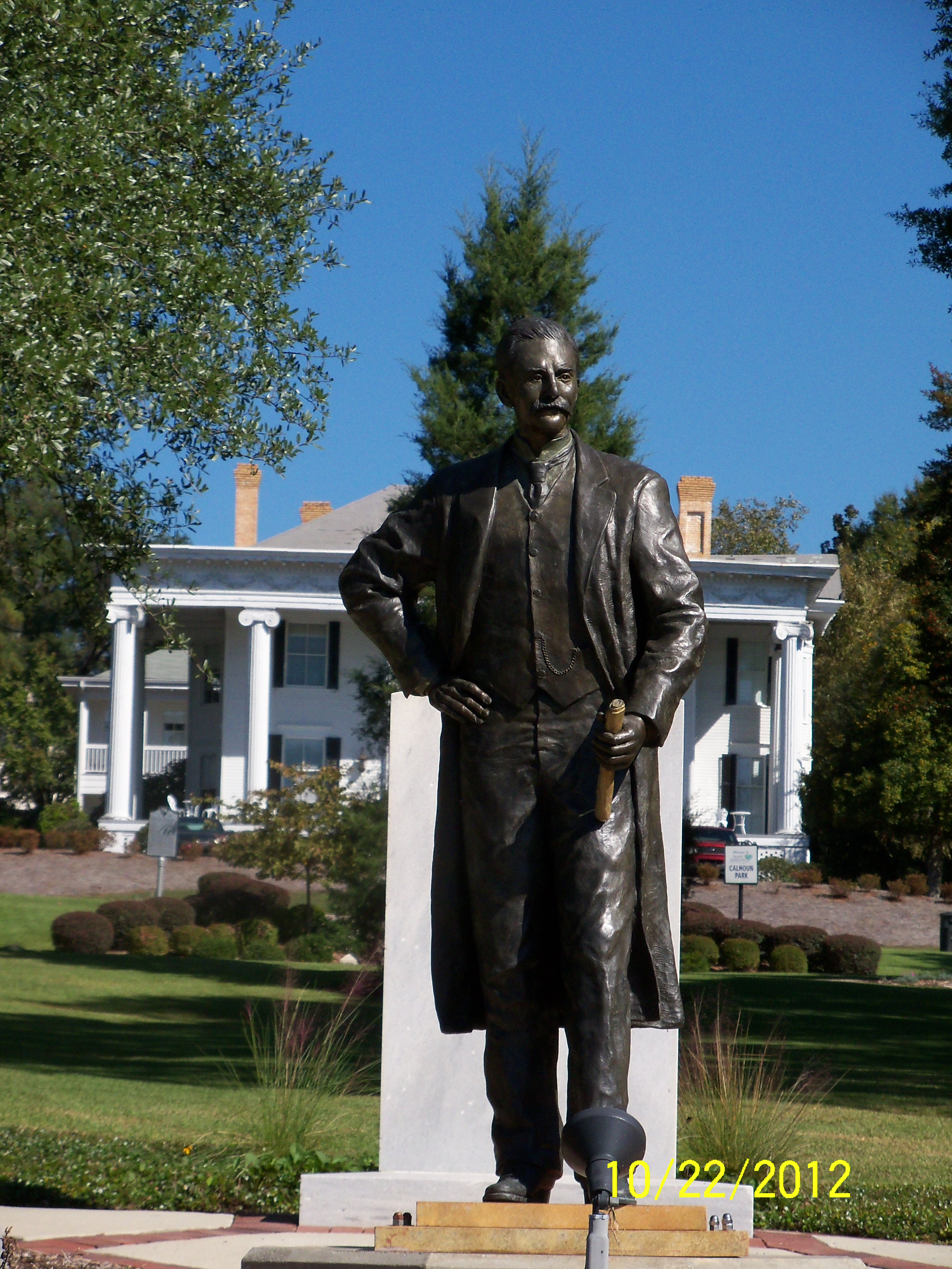 A statue of James U. Jackson (James Urquhart Jackson) outside of Look Away Hall